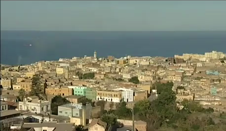 The old quarter of Tobana, Mostaganem - Algeria